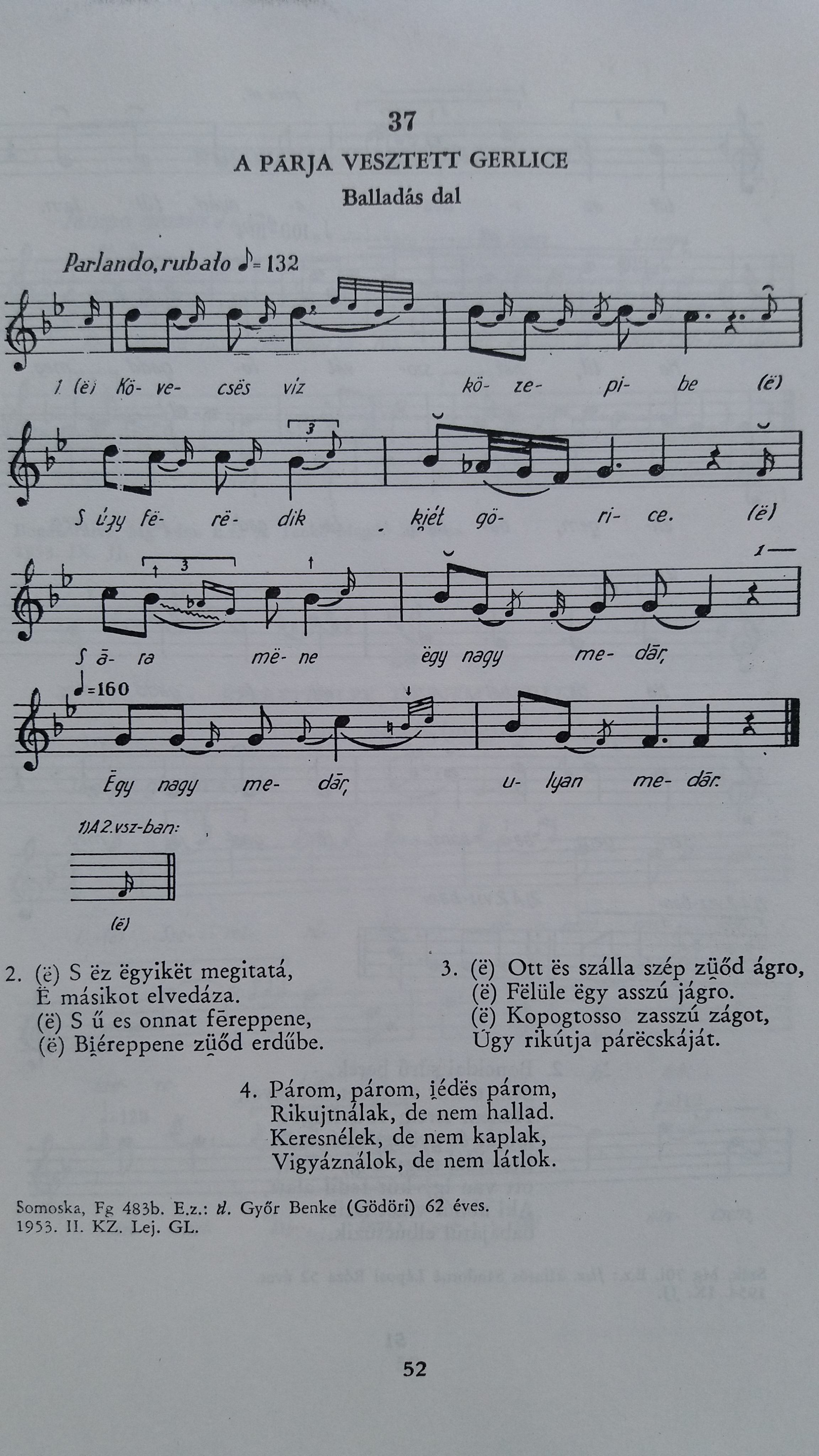 Hungarian folk song lyrics and sheet music of a turtledove who lost his/her companion. The song was sung in 1953 by Benke Győr then a 62-year-old resident of Gödör in Somoska (Moldavia). It was recorded by collector Zoltán Kallós and its folk-tune was written by László Gurka (then the associates of the Folklore Department of Cluj).